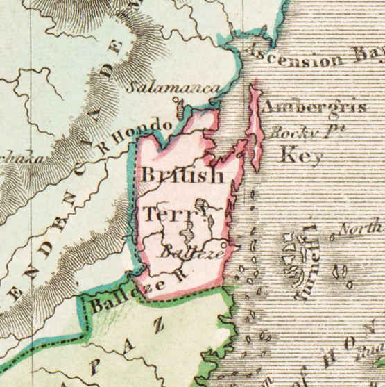 The creator of this map was probably Daniel Lizars II (1793-1875), the son of Edinburgh map engraver and publisher Daniel Lizars I (1754-1812) and younger brother of William Home Lizars (1788-1859). Shortly after producing the map, Daniel II went bankrupt in 1832 and emigrated to Canada in 1833. Lizars' map shows Mexico's administrative districts as Intendencies (Intendencias) and Internal Provinces (Provincias Internas) dating from the Spanish era. His depiction of the area that became Texas is notably jarring to modern viewers because his map further exaggerated some of the cartographic errors of his predecessors and contemporaries: particularly, a southerly "dip" of the middle Red River and the southerly courses of the Trinity, Brazos, and Colorado Rivers (which actually flow southeasterly). Settlements shown include Nacogdoches, "St." Antonio, and "Loredo". Interestingly, Lizars included the "British Territory" that became British Honduras or Belize. British logging settlements existed in the territory by the late eighteenth century and, although the British government had been hesitant to create a colony for fear of provoking the Spanish, settlers there were largely self-governing.